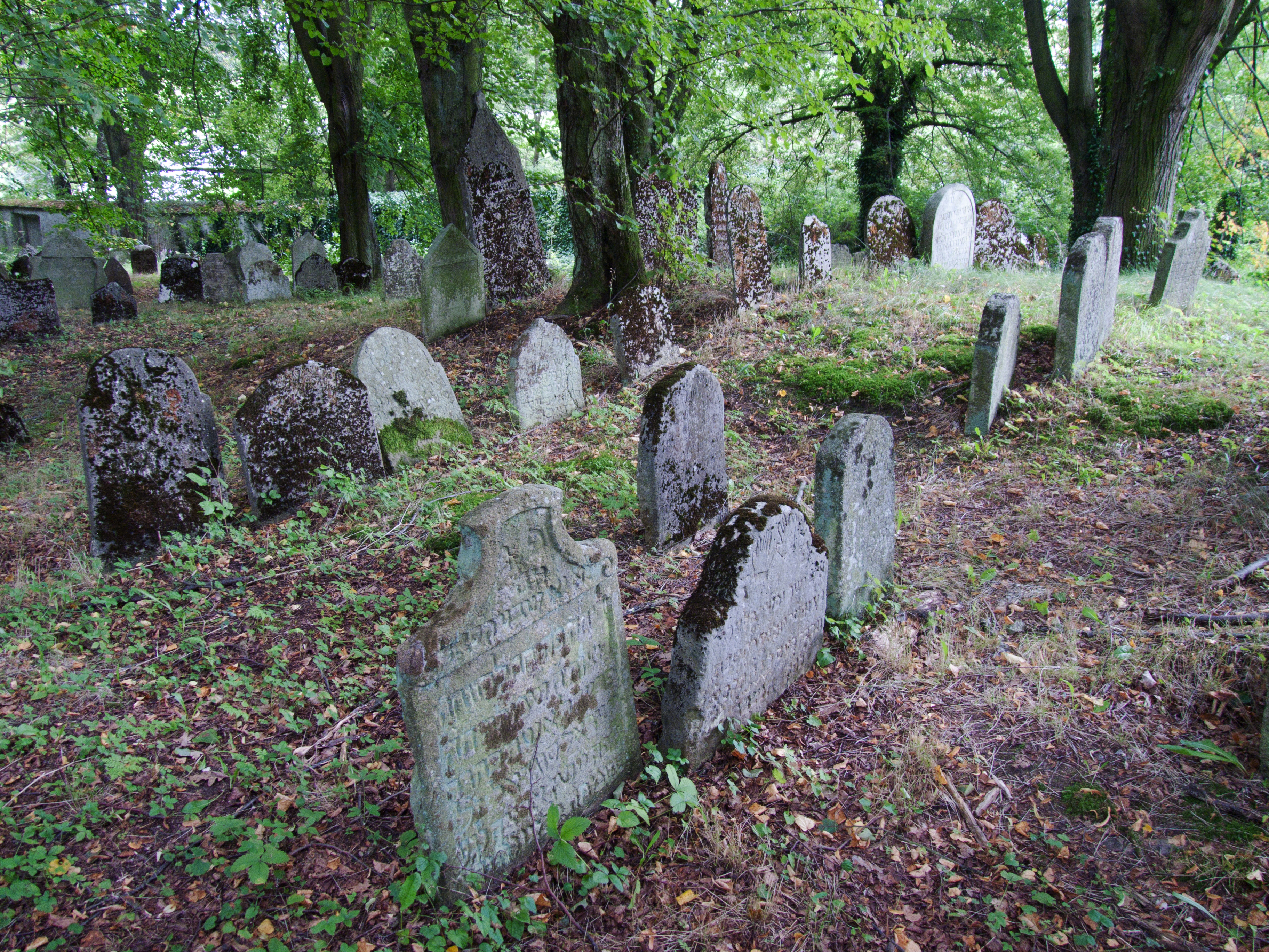 Old gravestones in the Jewish cemetery at the village of Koloděje nad Lužnicí, České Budějovice District, Czech Republic